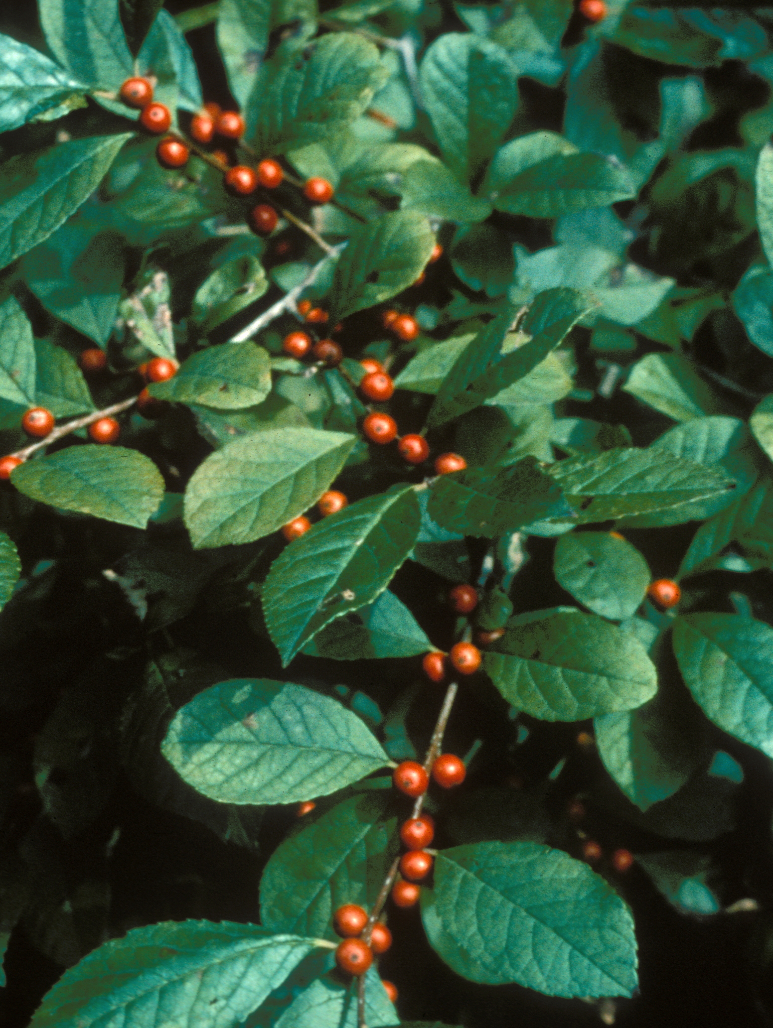 smooth winterberry Ilex laevigata (Pursh) Gray Descriptor: Foliage Description: Ilex laevigata; smooth winterberry Image type: Field Image location: United States